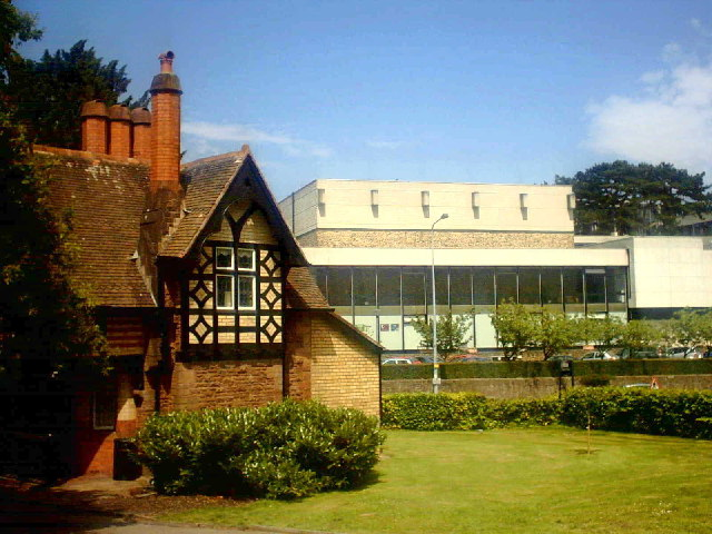 Ty Oldfield Lodge. With part of BBC Wales Headquarters in background